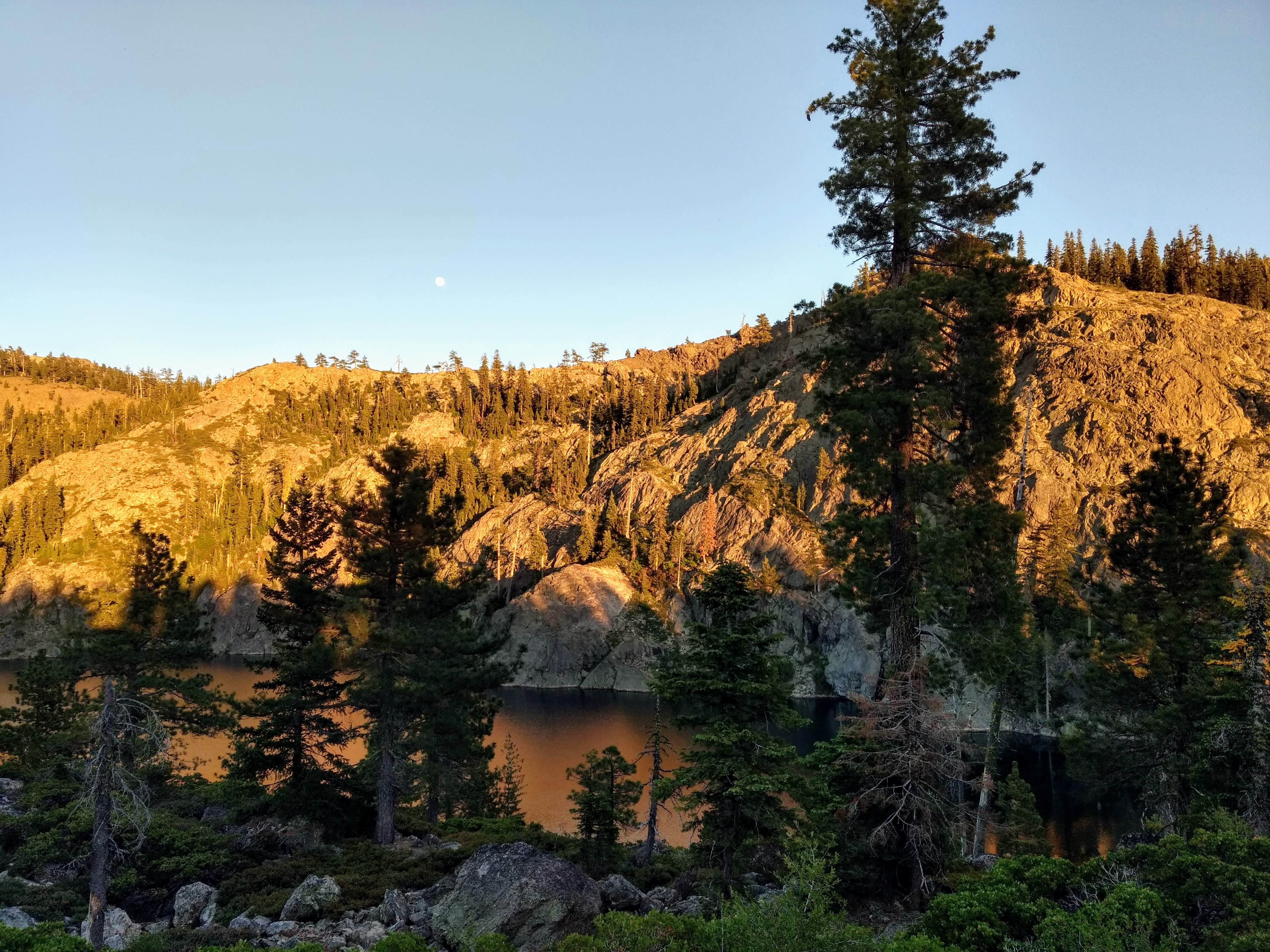 Kangaroo Lake, California as viewed from the nearby campsite.